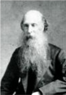 John Barraclough Fell (1815 – 18 October 1902), was a British railway engineer and inventor of the Fell mountain railway system.